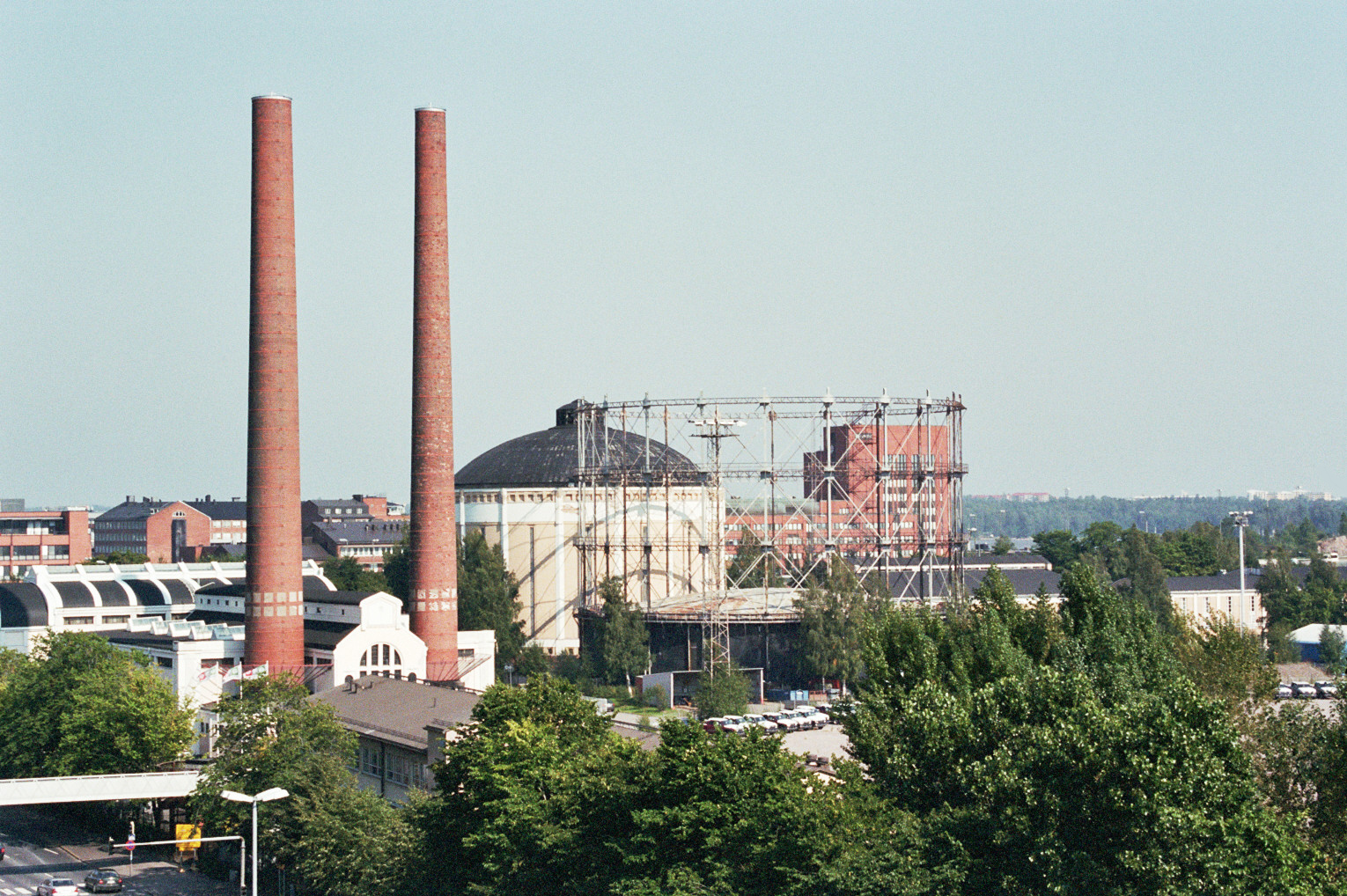 Former Suvilahti power plant in Helsinki, Finland